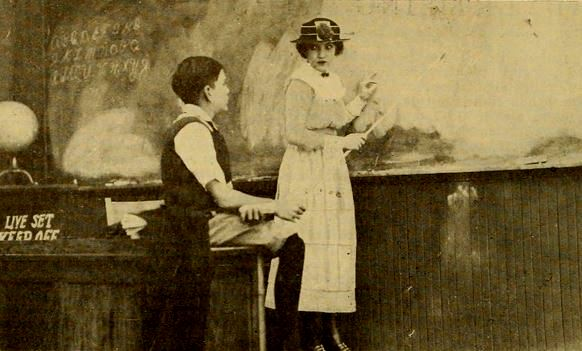 Still from the American film Cupid Forecloses (1919) with Bessie Love, on page 2000 of the June 28, 1919 Moving Picture World.